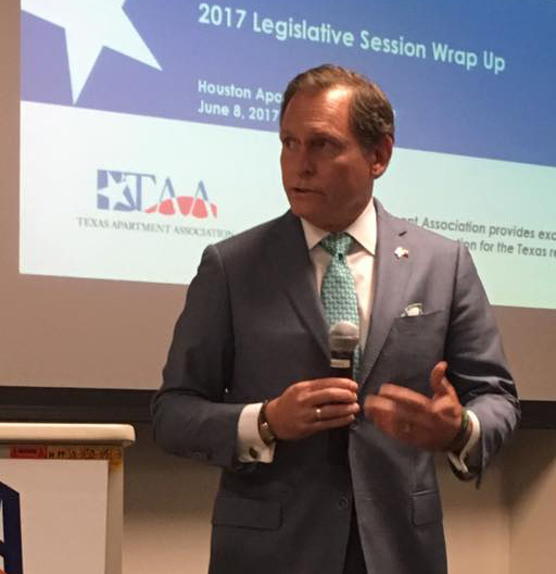 Texas State House Representative John Zerwas providing an update on the Texas Legislature to the Houston Apartment Association, June 8, 2017.